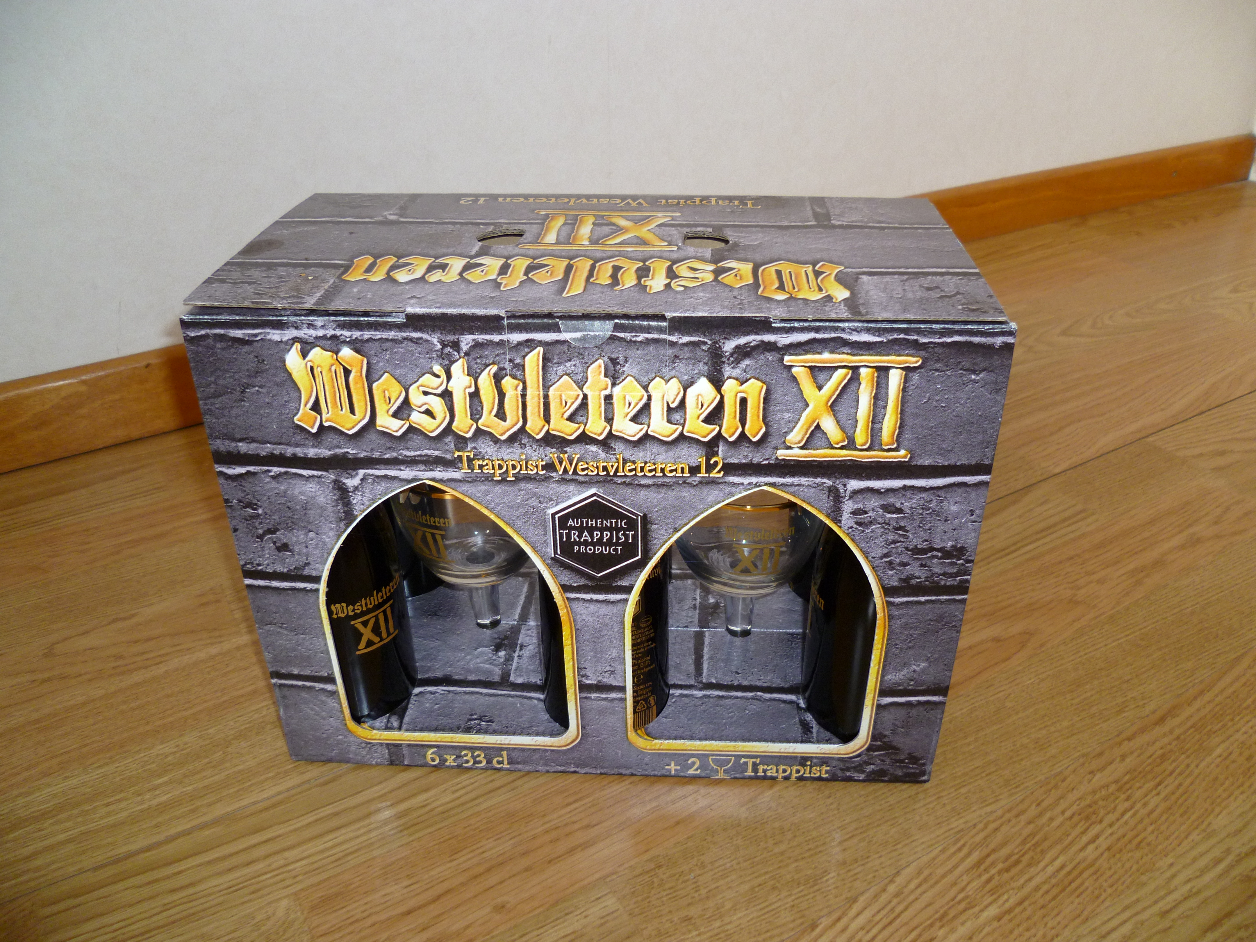 The Westvleteren XII pack.